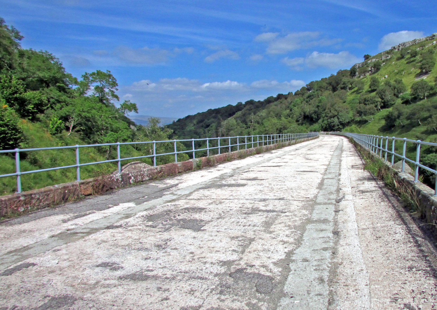 Smardale Gill Viaduct restored upper deck for walkers looking south east in 2016